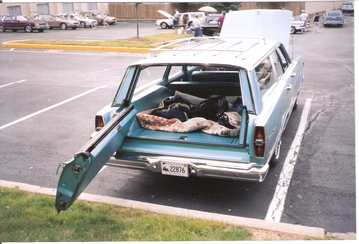 1966 Ford Country Sedan I photographed in Princeton, New Jersey in June 2003, demonstrating that year's new Magic Doorgate opening sideways like a door.